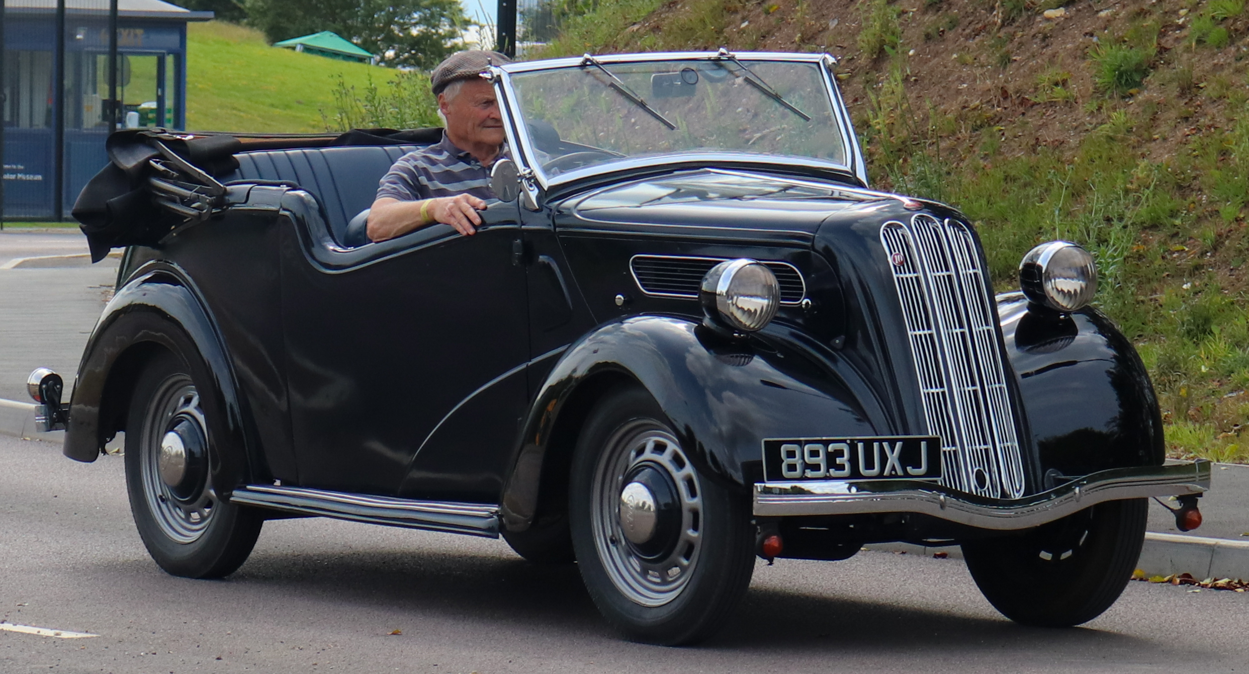 1938 Ford 7W Ten Tourer 1.2 Taken at the British Motor Museum Old Ford Rally 2019, Gaydon